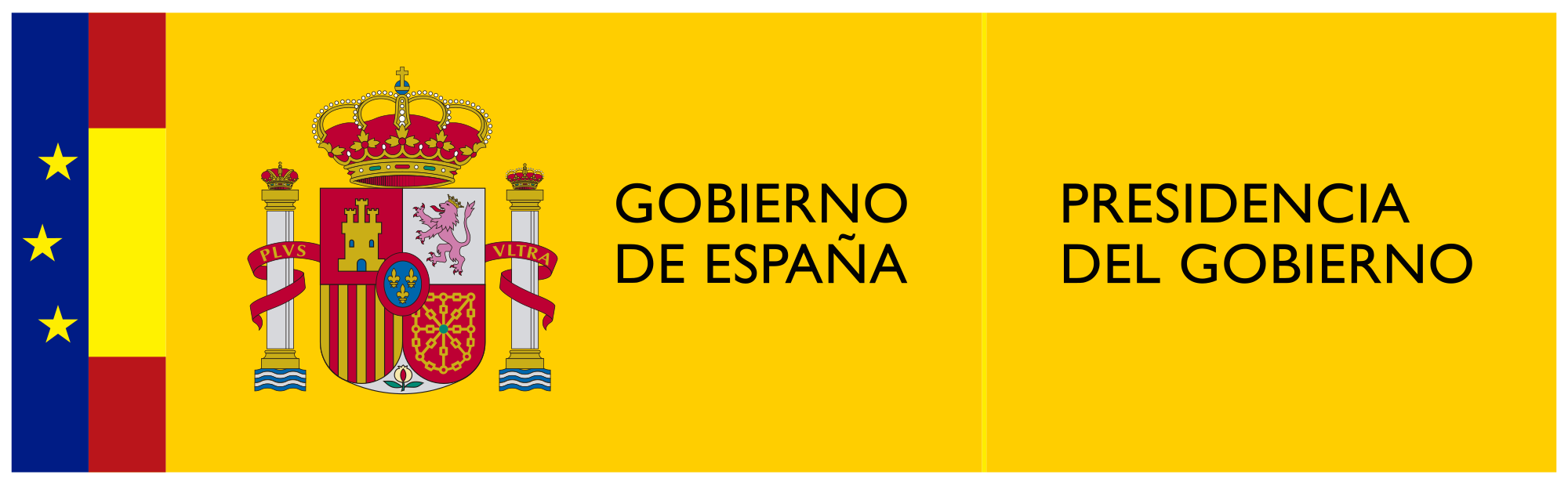 Logotype of the Presidency of the Goverment of Spain